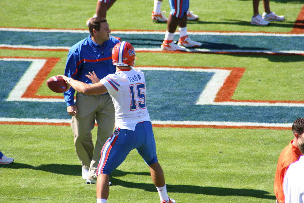 Tim Tebow, warming up before the 2006 Florida vs Georgia game